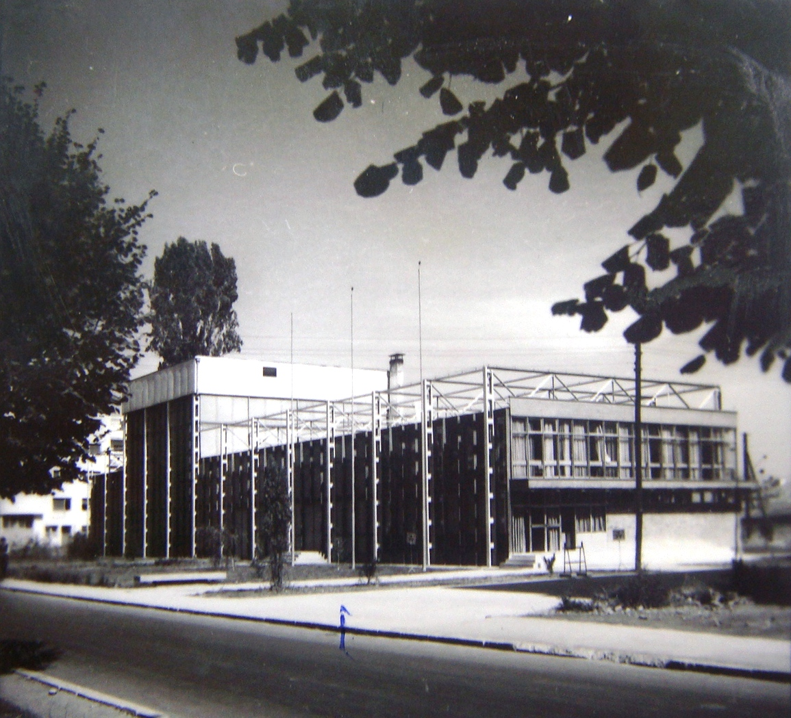 1963 Skopje earthquake: Construction of a temporary building for the National Theatre, on the Boulevard JNA This media file is produced by Wikipedian in Residence in Category:Wikipedian in Residence at DARM in 2016.